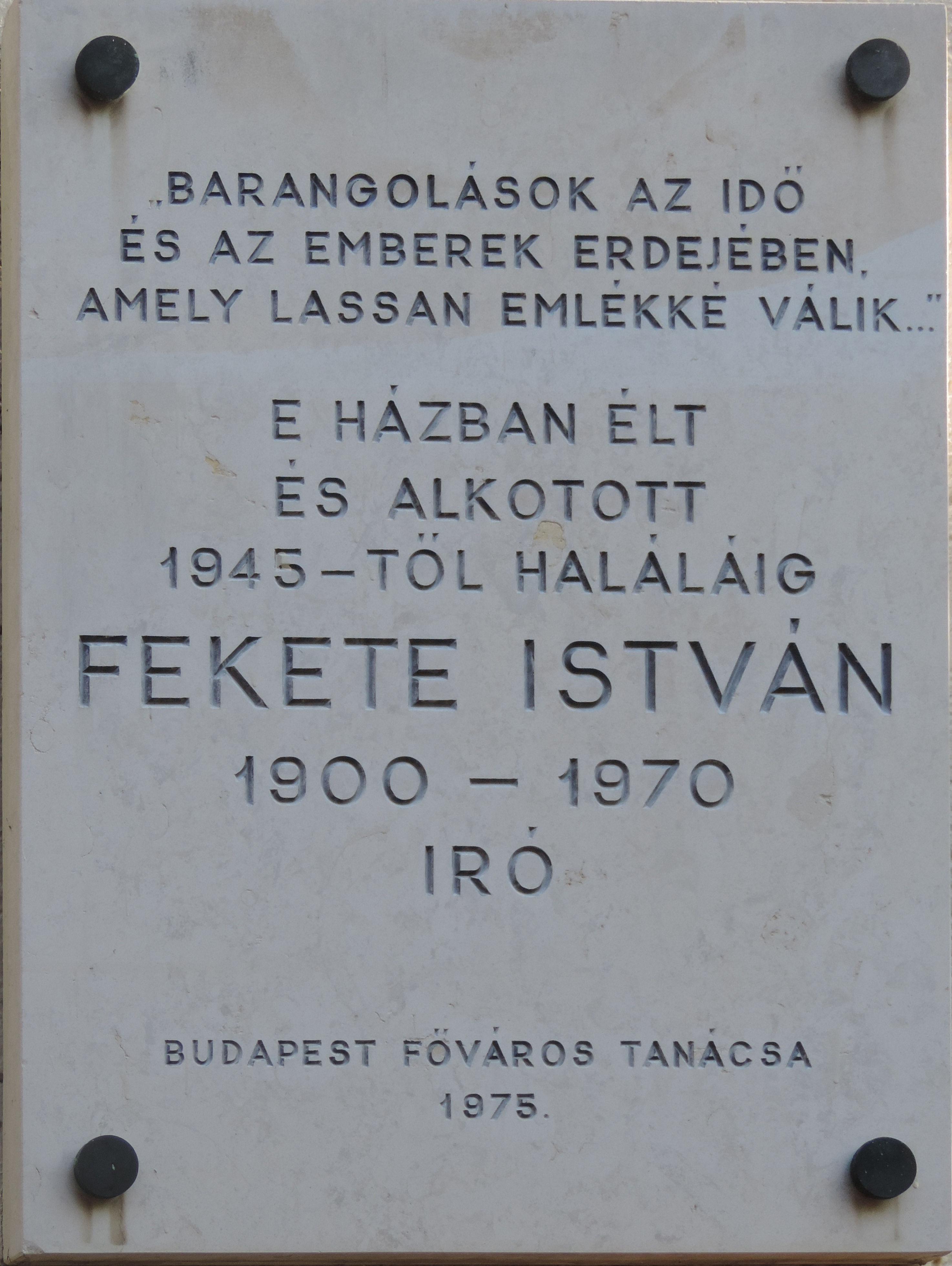 Commemorative plaque of István Fekete in Budapest District II, Tárogató út No 77